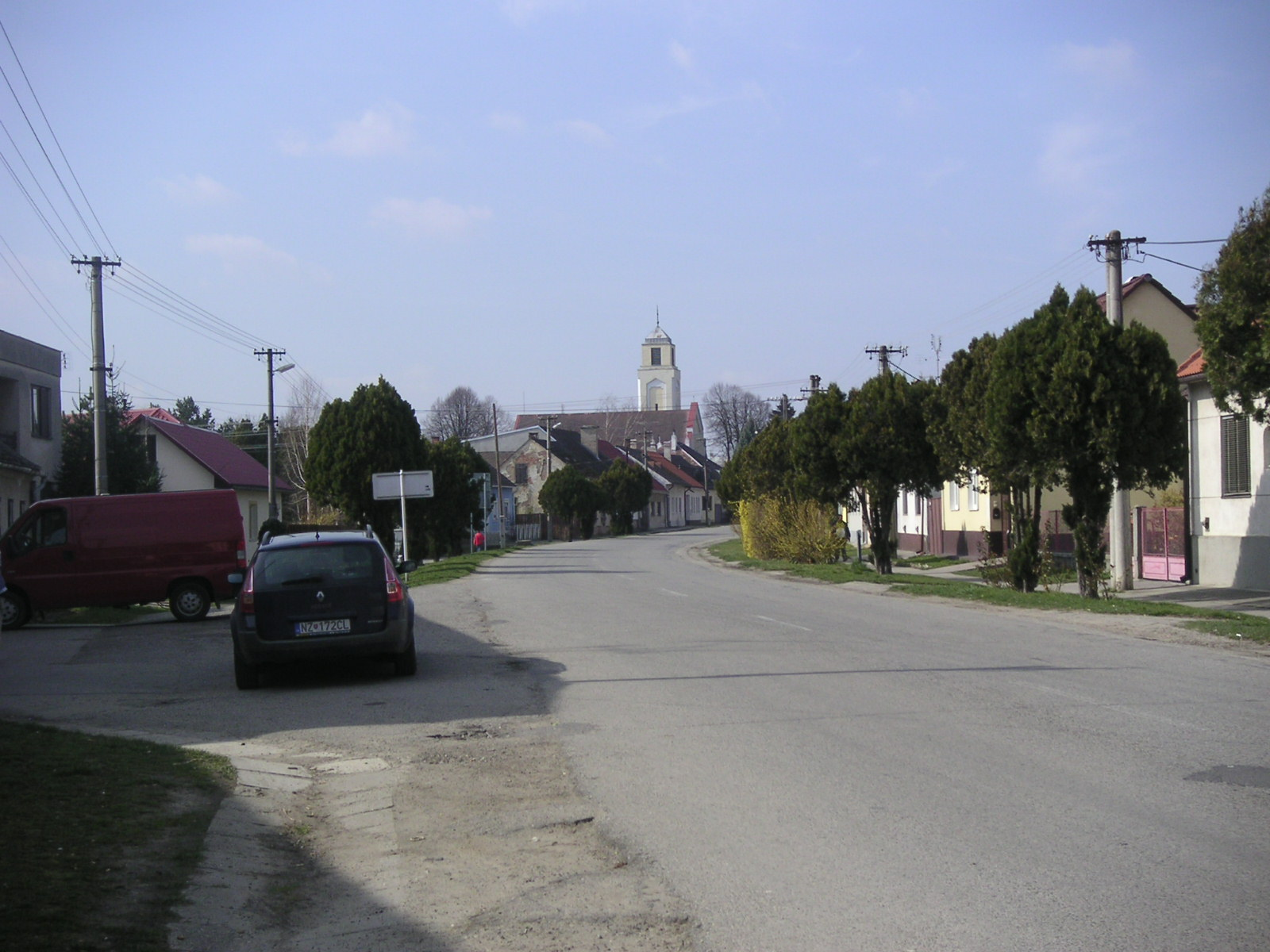 Main Street in Záhorská Ves, Slovakia